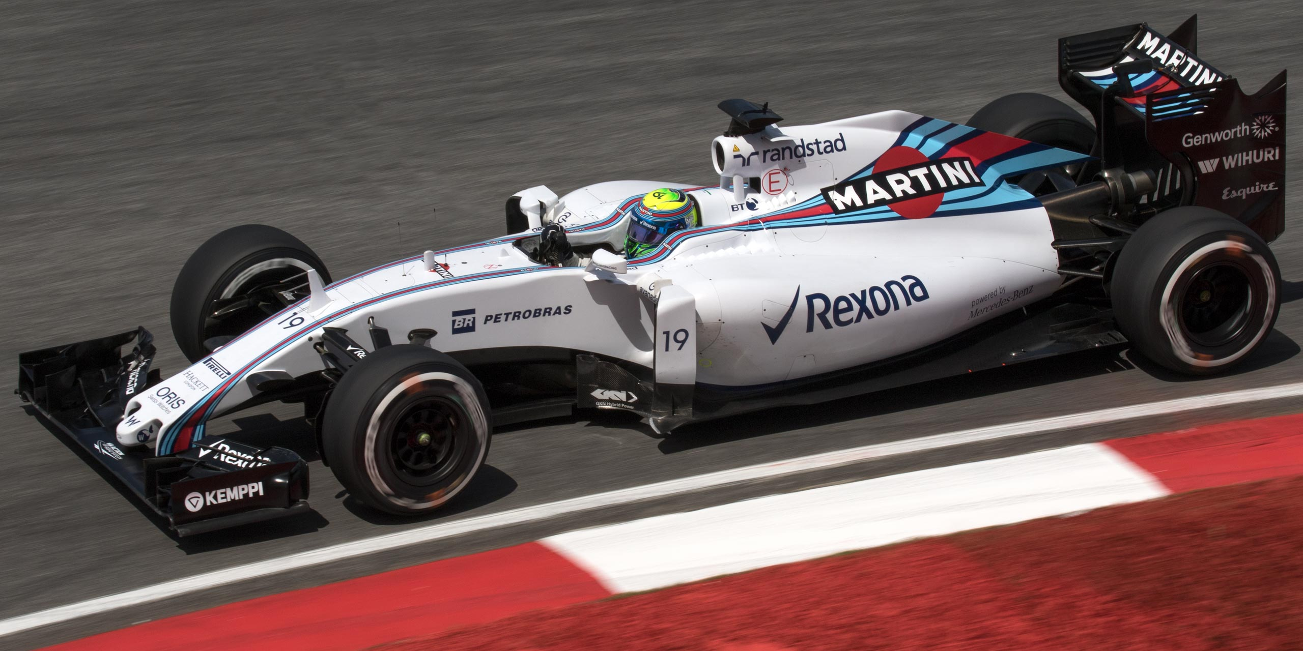 Formula One 2015 Rd.2 Malaysian GP: Felipe Massa (WilliamsF1)